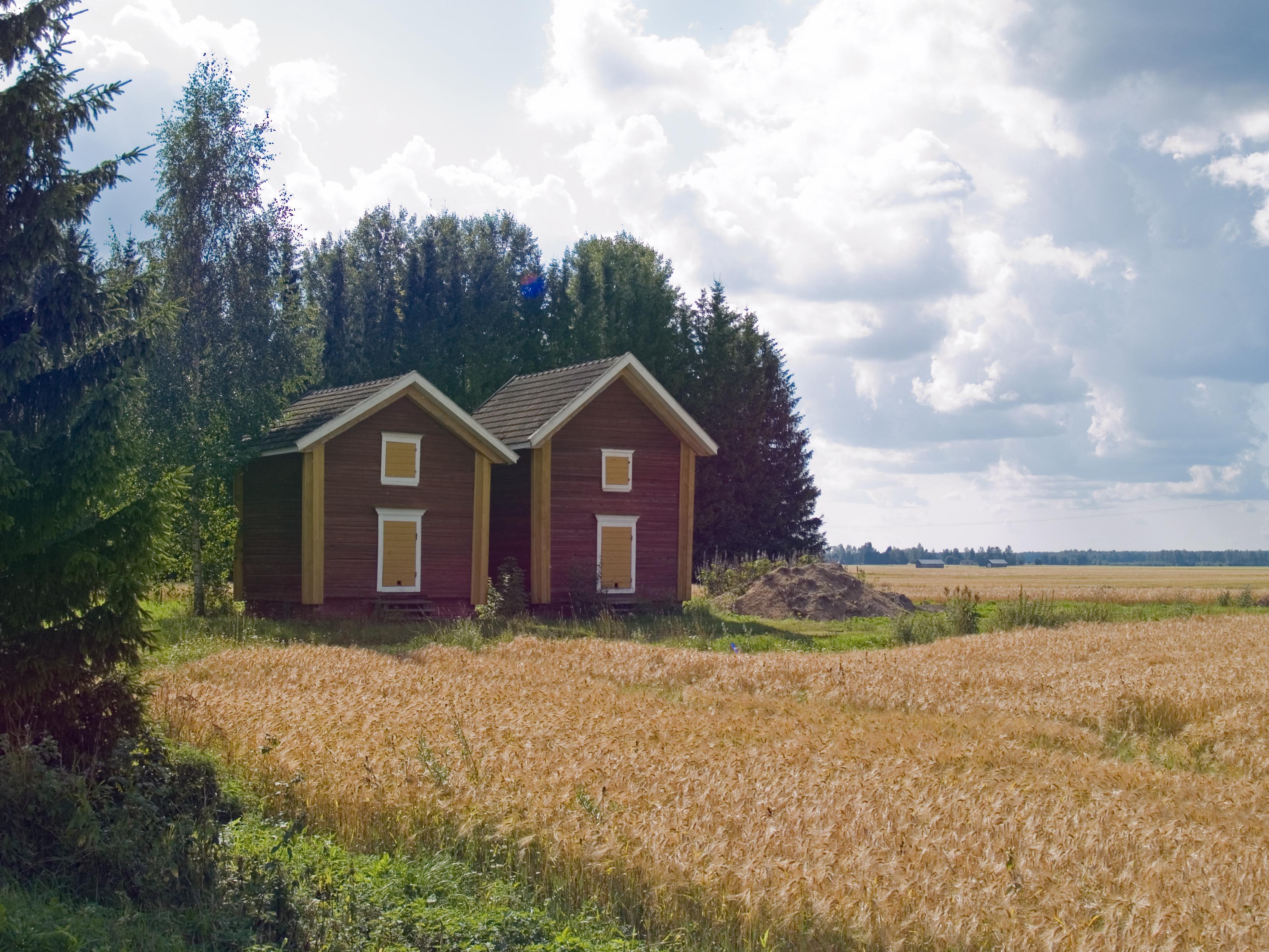 Granaries in Könni village, Ilmajoki, Finland.